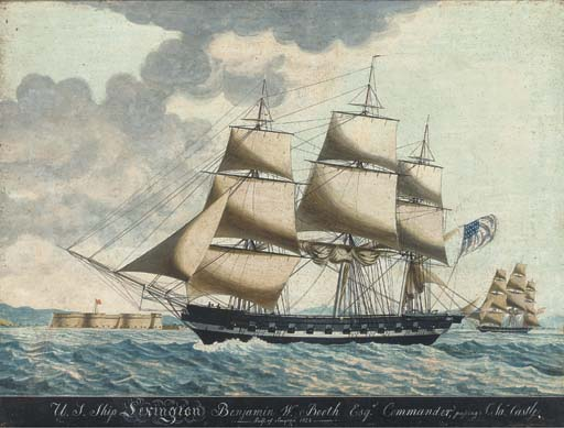 Painting of the USS Lexington (1825) off Smyrna in 1828.